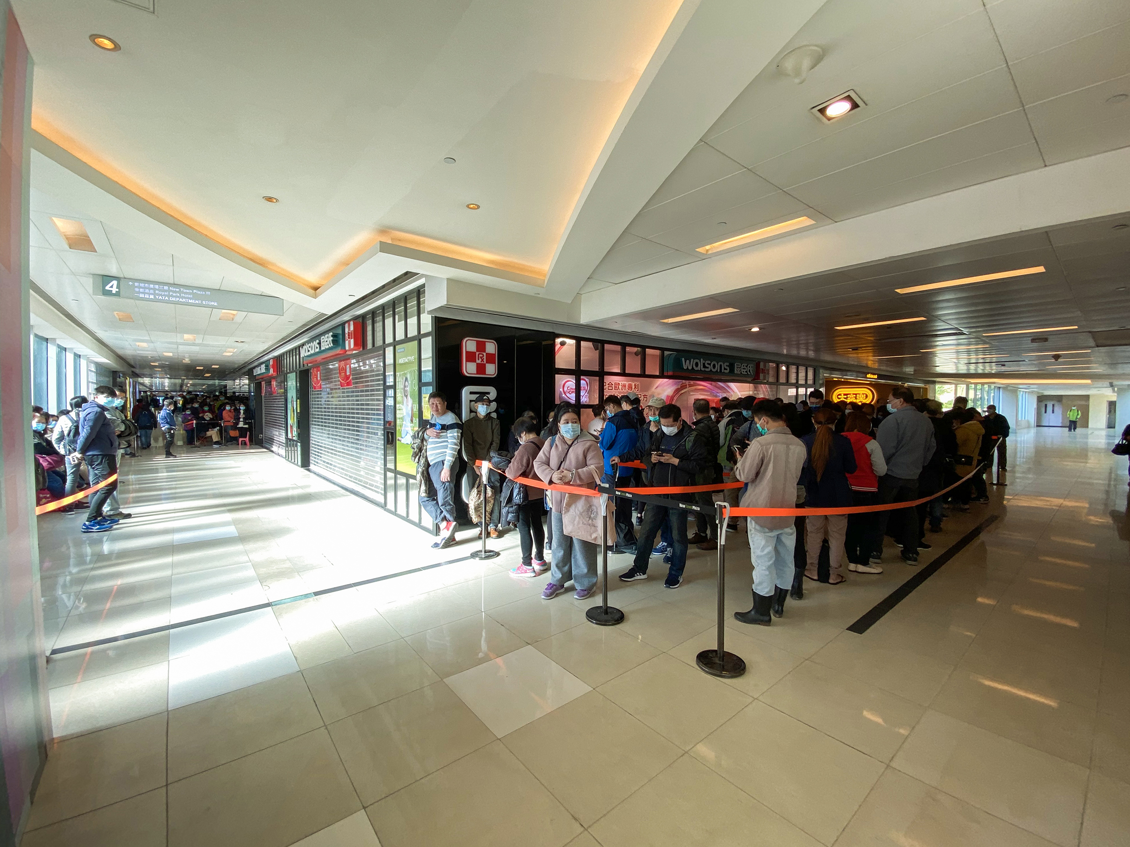 People wait to buy the mask in Watson store, New Town Plaza